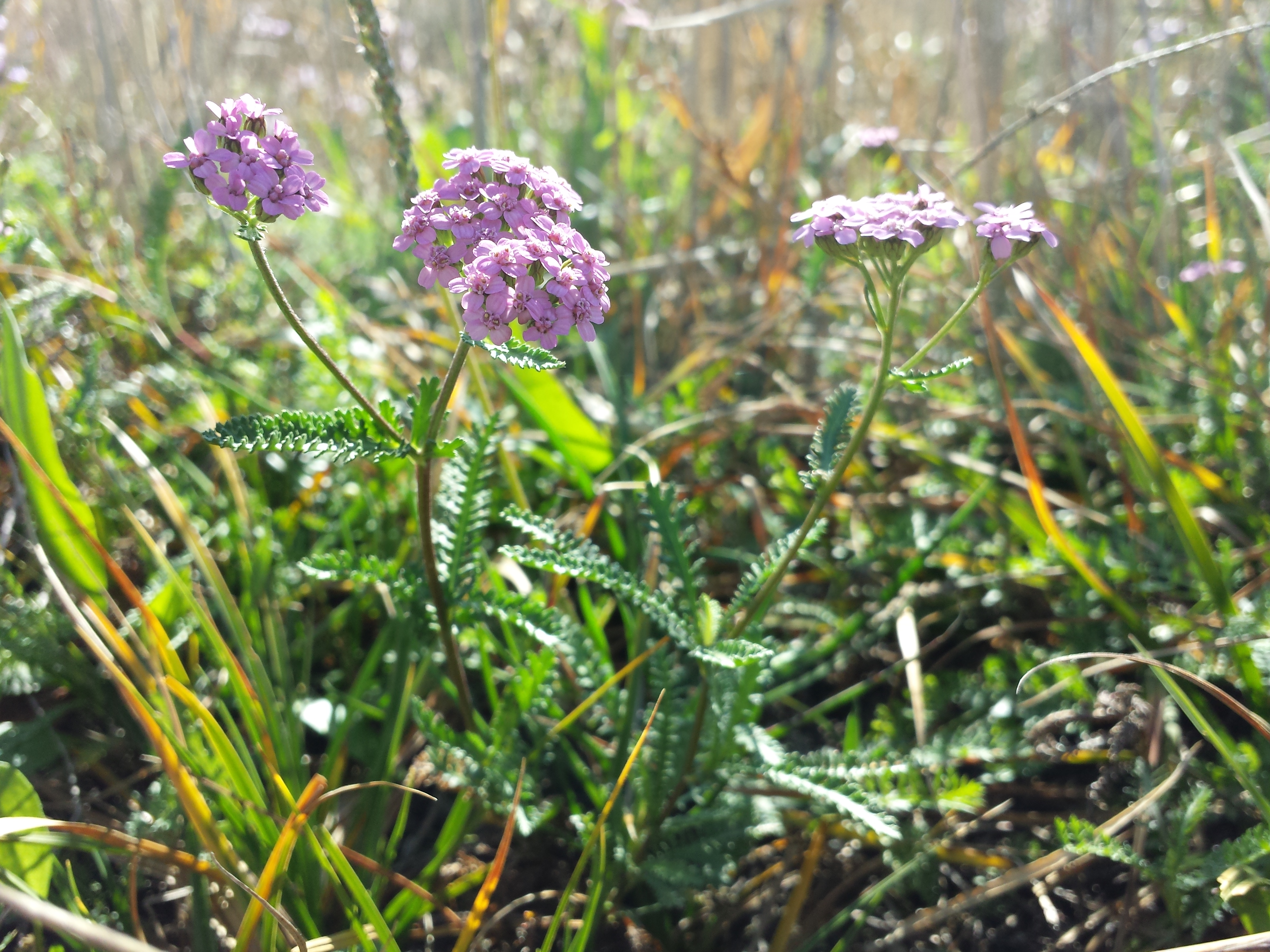 Habitus Taxon: Achillea aspleniifolia (sensu Fischer et al. EfÖLS 2008; det M. A. Fischer 2013-10-12) Location: small salt lake near Podersdorf, district Neusiedl am See, Burgenland, Austria - ca. 120 m a.s.l. Habitat: dried-out small salt lake